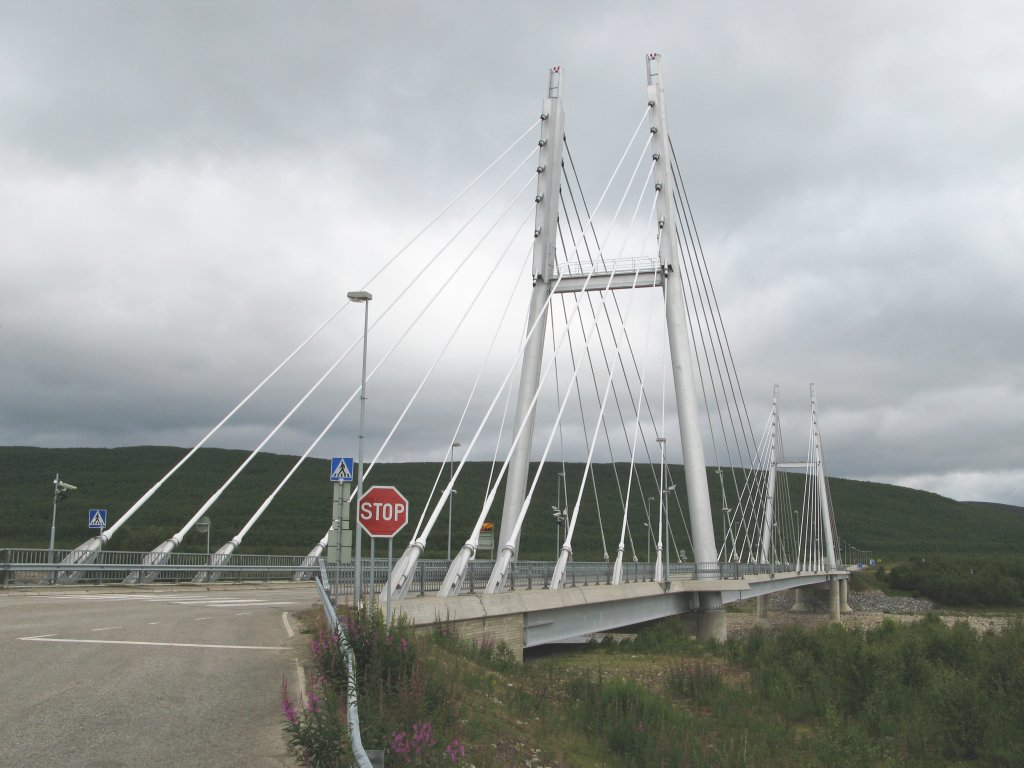 Sami Bridge in Utsjoki, Finland at the Finnish–Norwegian border. The picture has been taken from the Finnish side of the border.